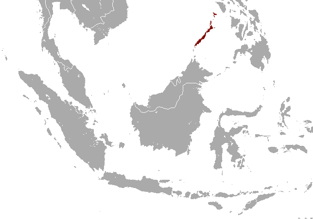 Philippine Pangolin (Manis culionensis) range